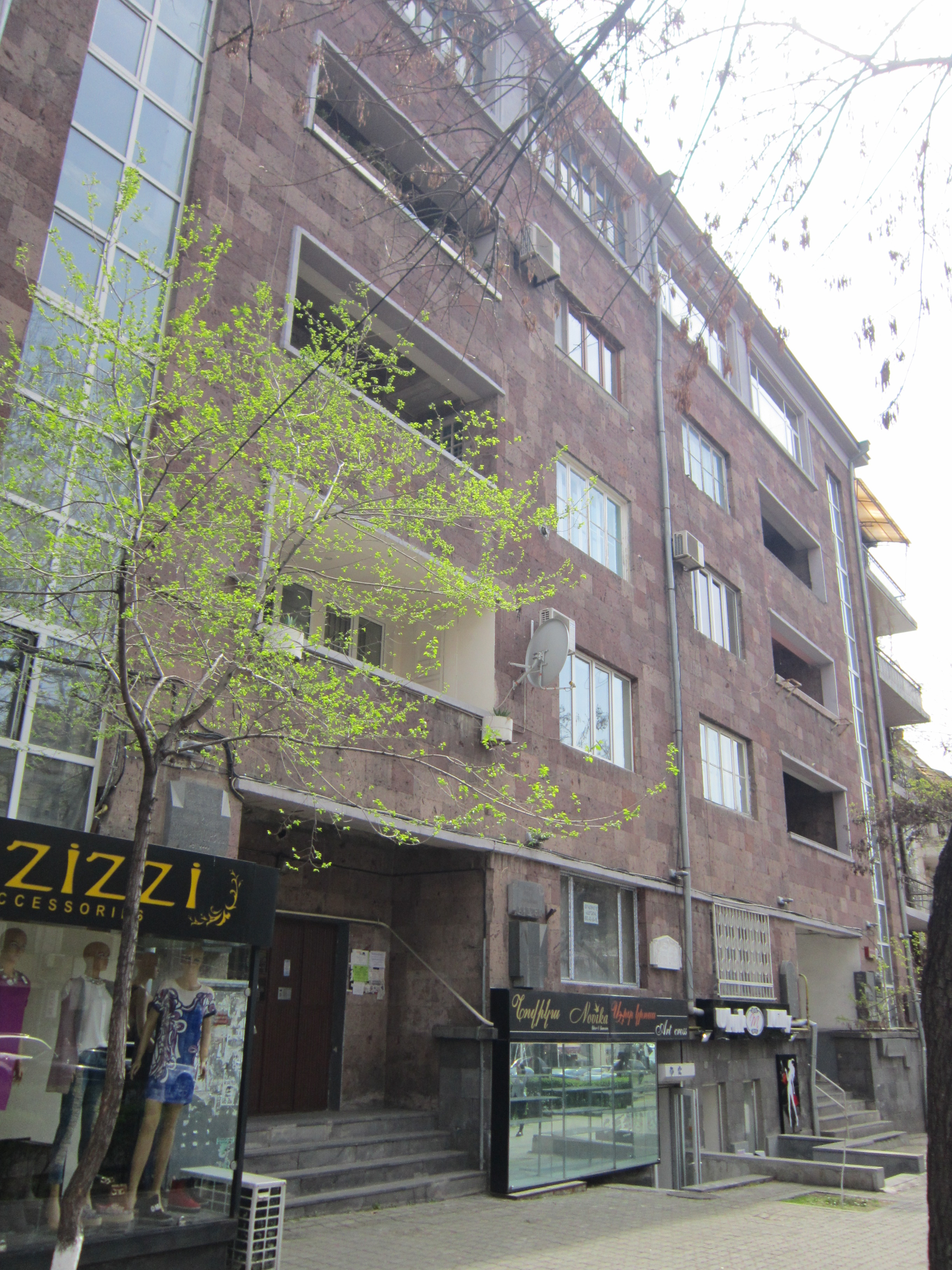 a house of famous artists in Yerevan. Vahan Totovents, Stepan Zorian, Panos Terlemezian and many others lived here